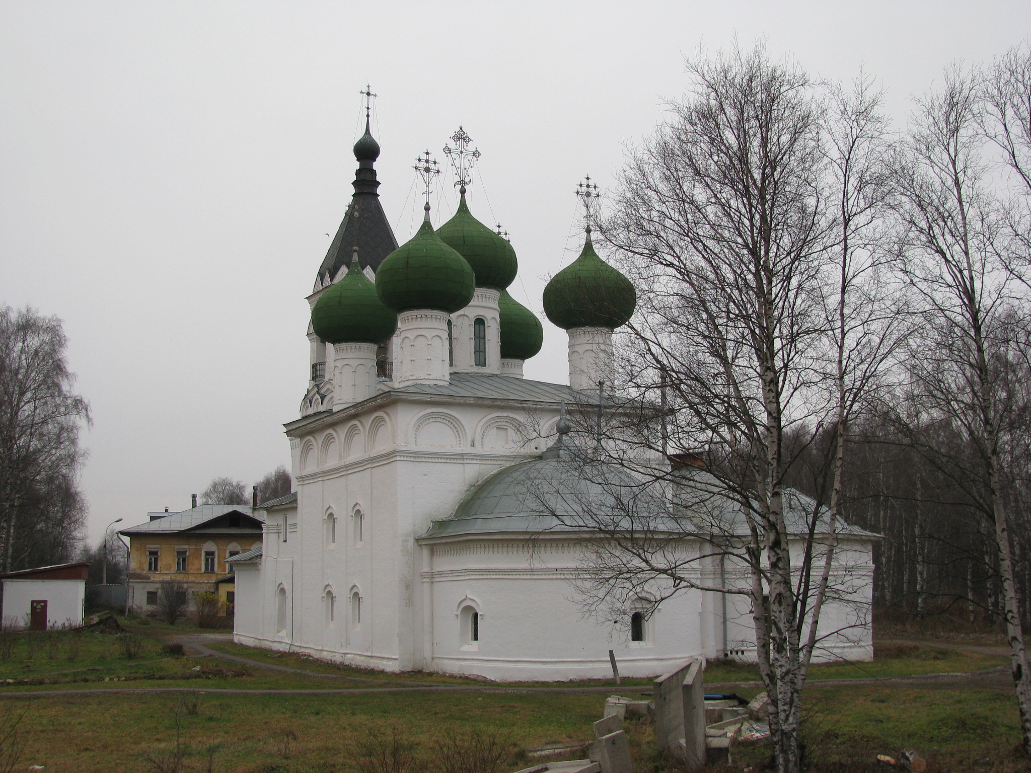 Church of Dormition in Vologda